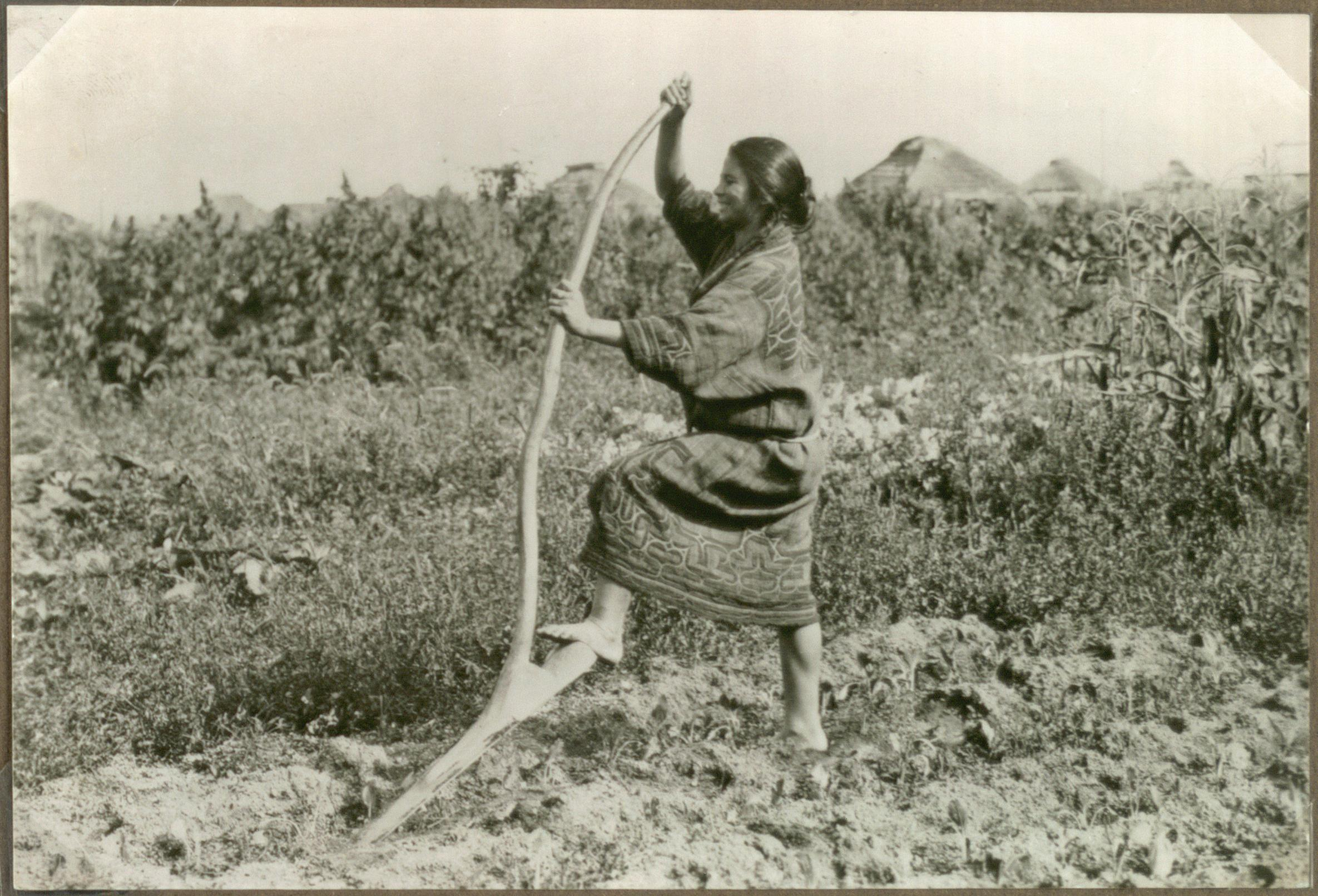 agriculture,Japan – Ainu Photographer: S. Kinoshita, 1937 No. es_b_00522